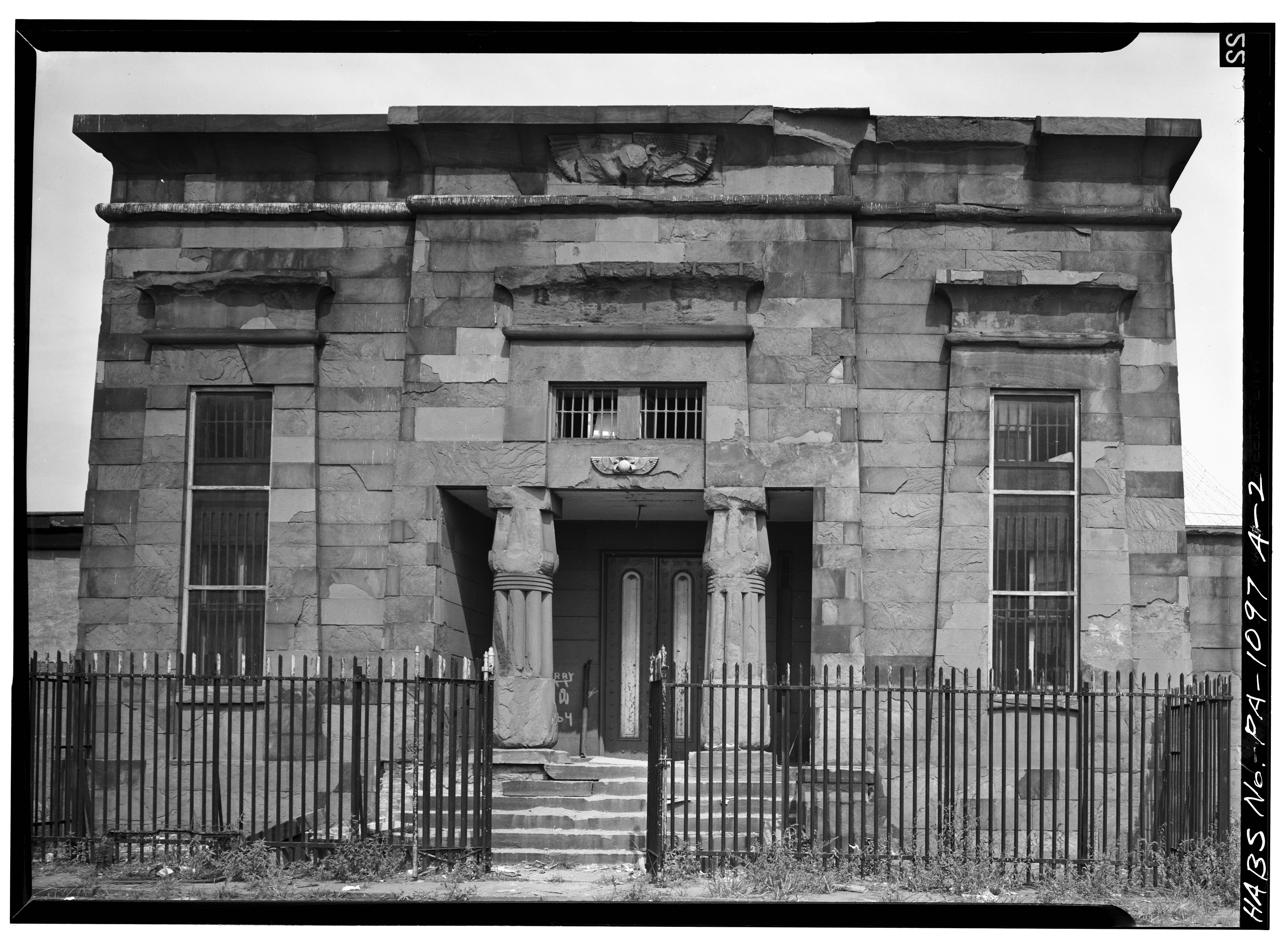 Philadelphia County Prison (Moyamensing Prison) Philadelphia PA. Debtors' Wing Southeast (Front) Elevation, From Southeast. From LOC Historic American Buildings Survey (HABS) PA-1097-A Compiled after 1933. Control Number: pa1059. Jack E. Boucher, photographer (July 1965)